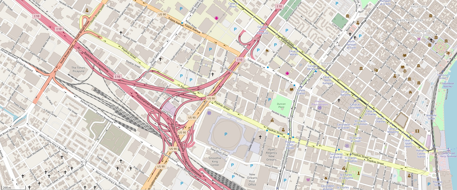 Poydras Street running west northwest from the Mississippi River This map may be incomplete, and may contain errors. Don't rely solely on it for navigation.